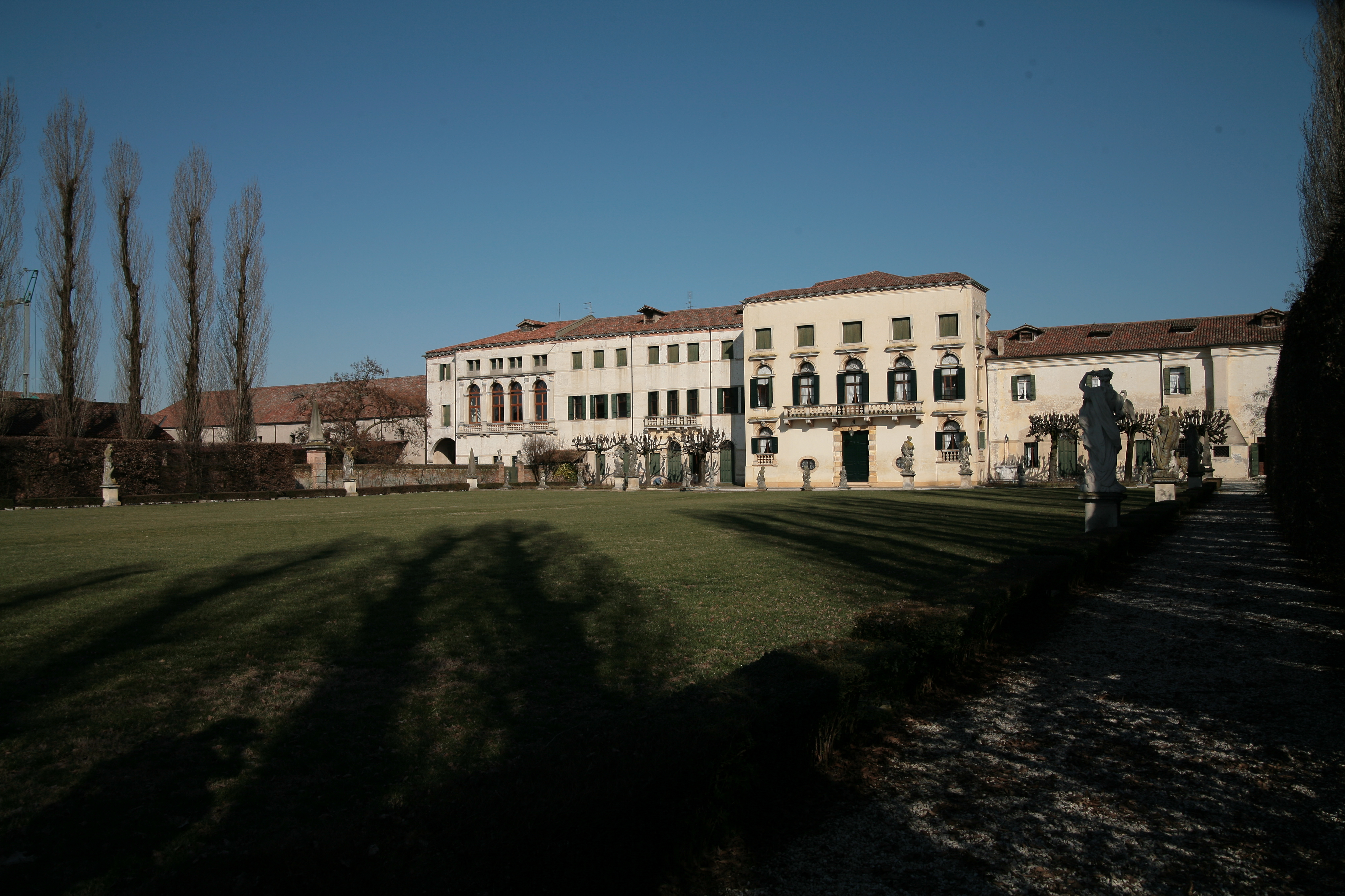 Villa Widmann Bagnoli di Sopra